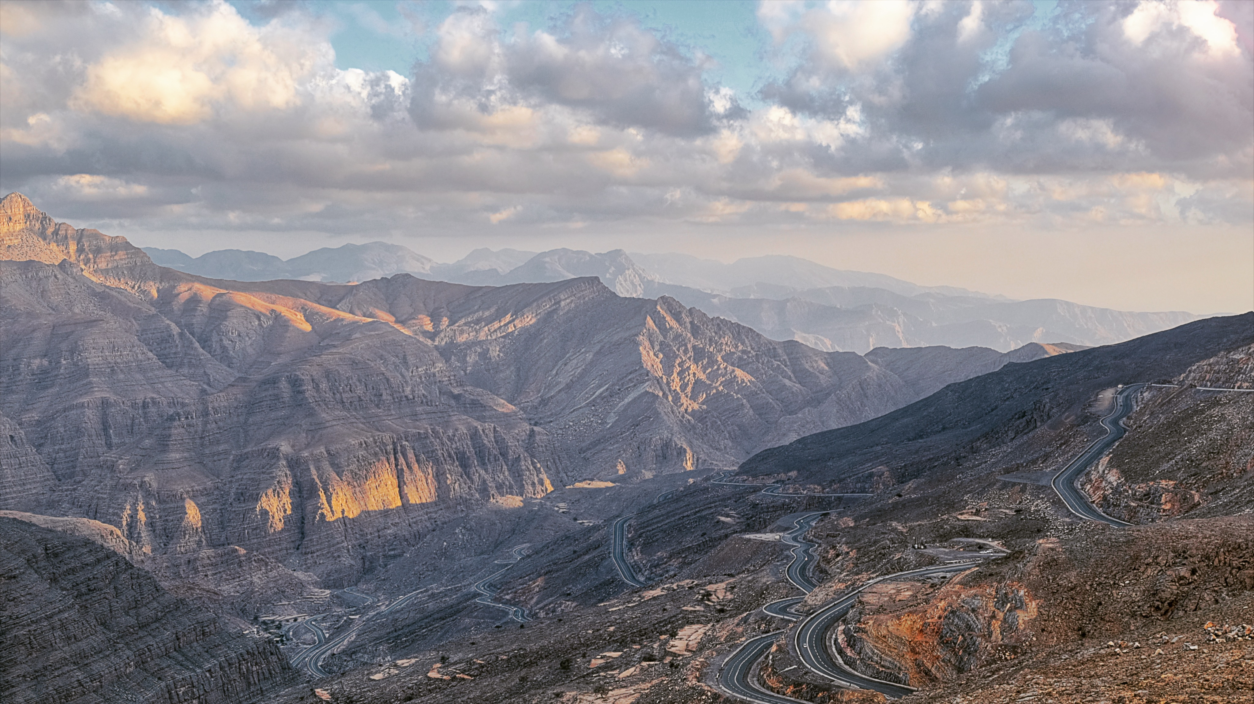 View from Jebel Jais